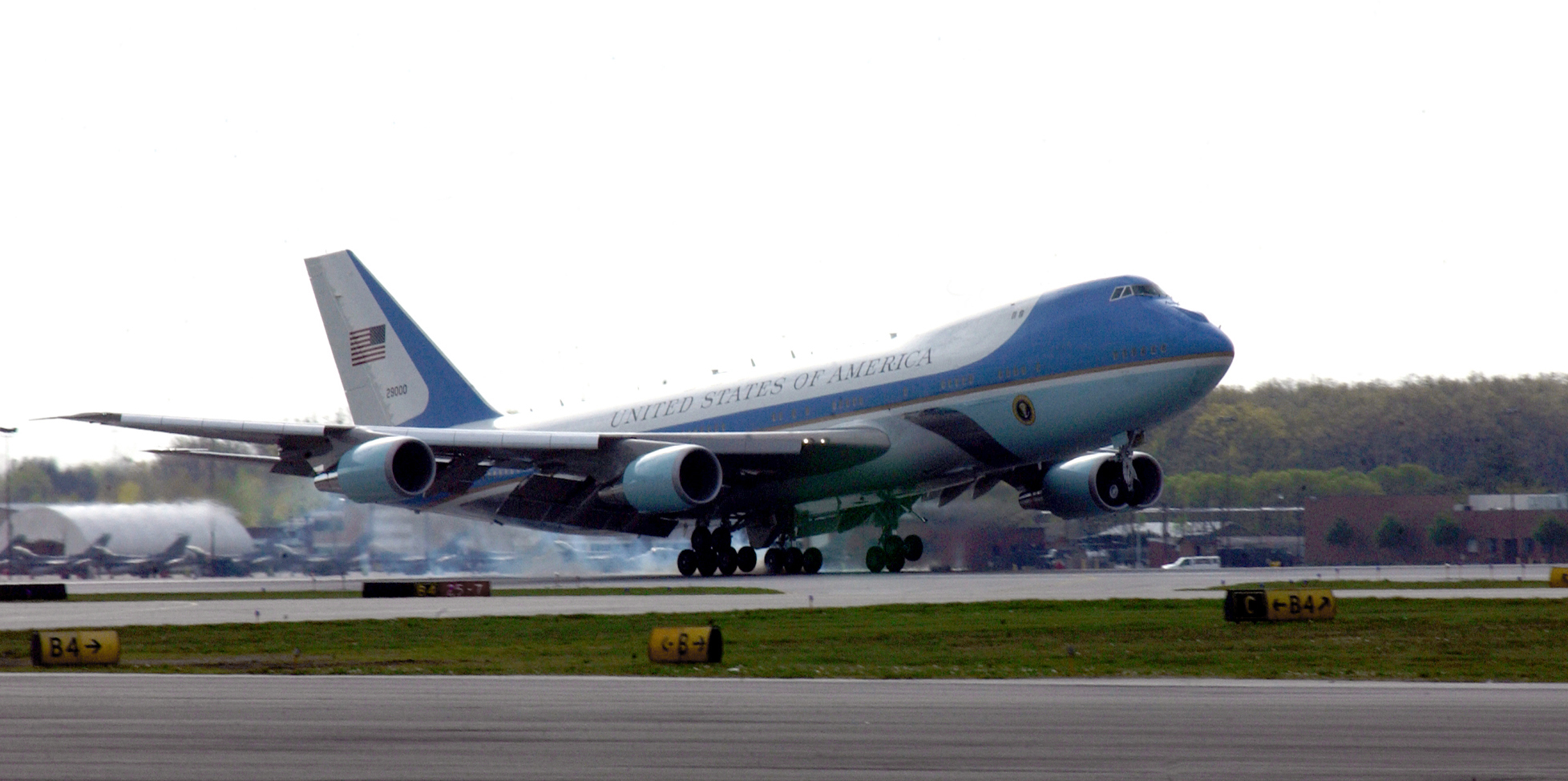 Air Force One lands in Toledo, Ohio